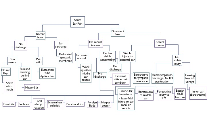 framework for ear pain workup